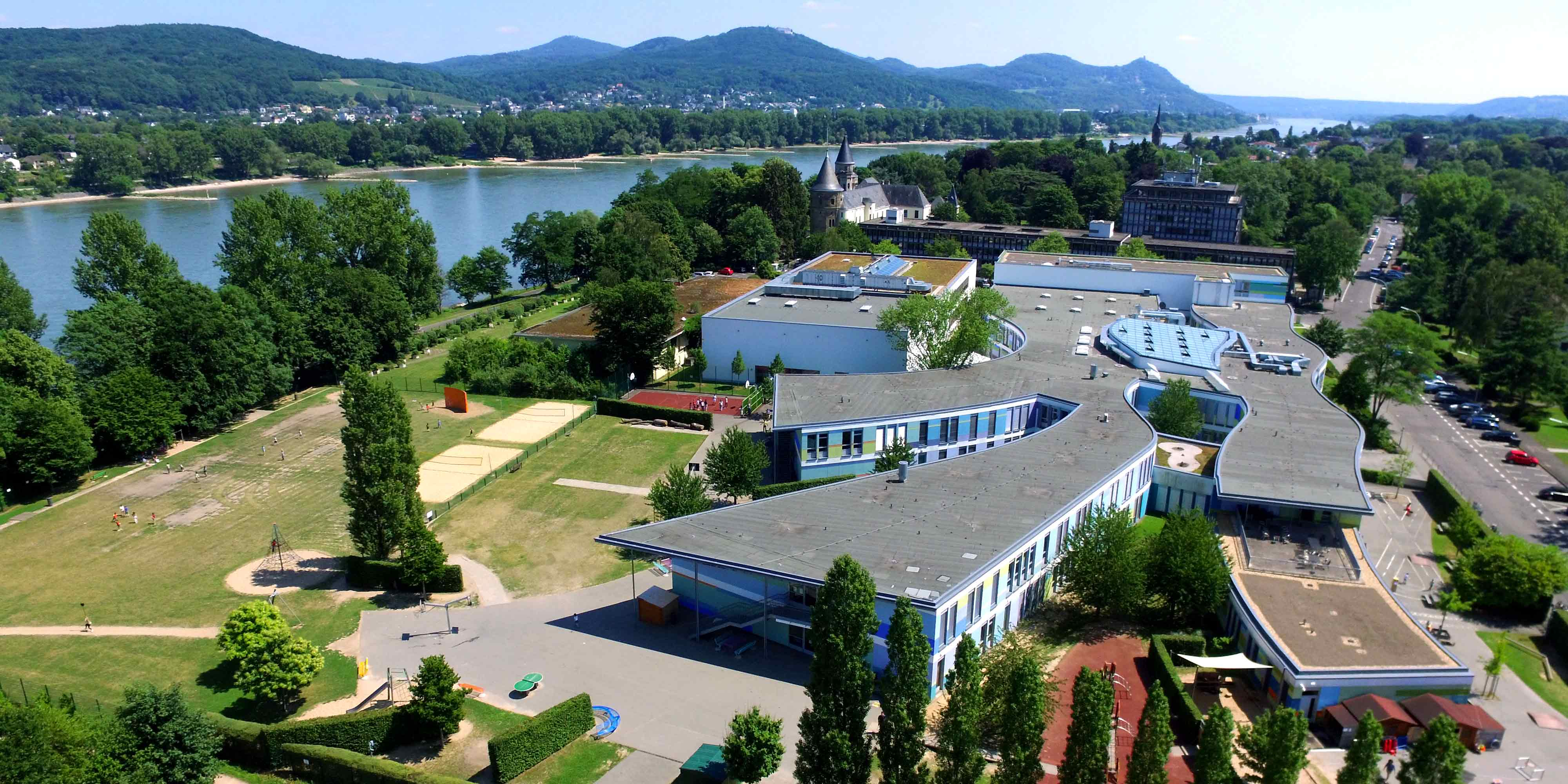 Bonn International School campus - bird's eye view